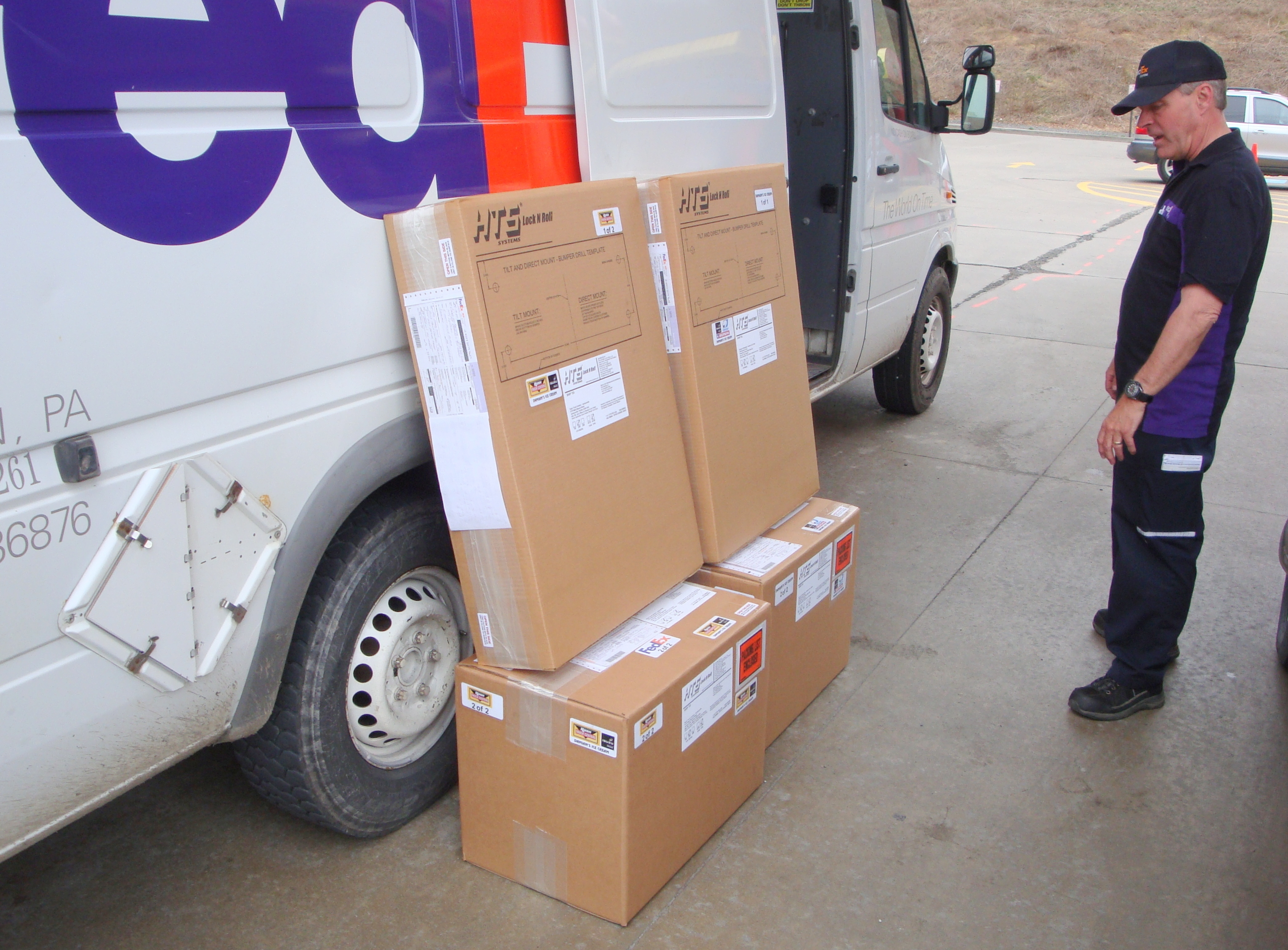 HTS Systems orders for Pensacola and Jacksonville, Florida shipping FedEx Express.